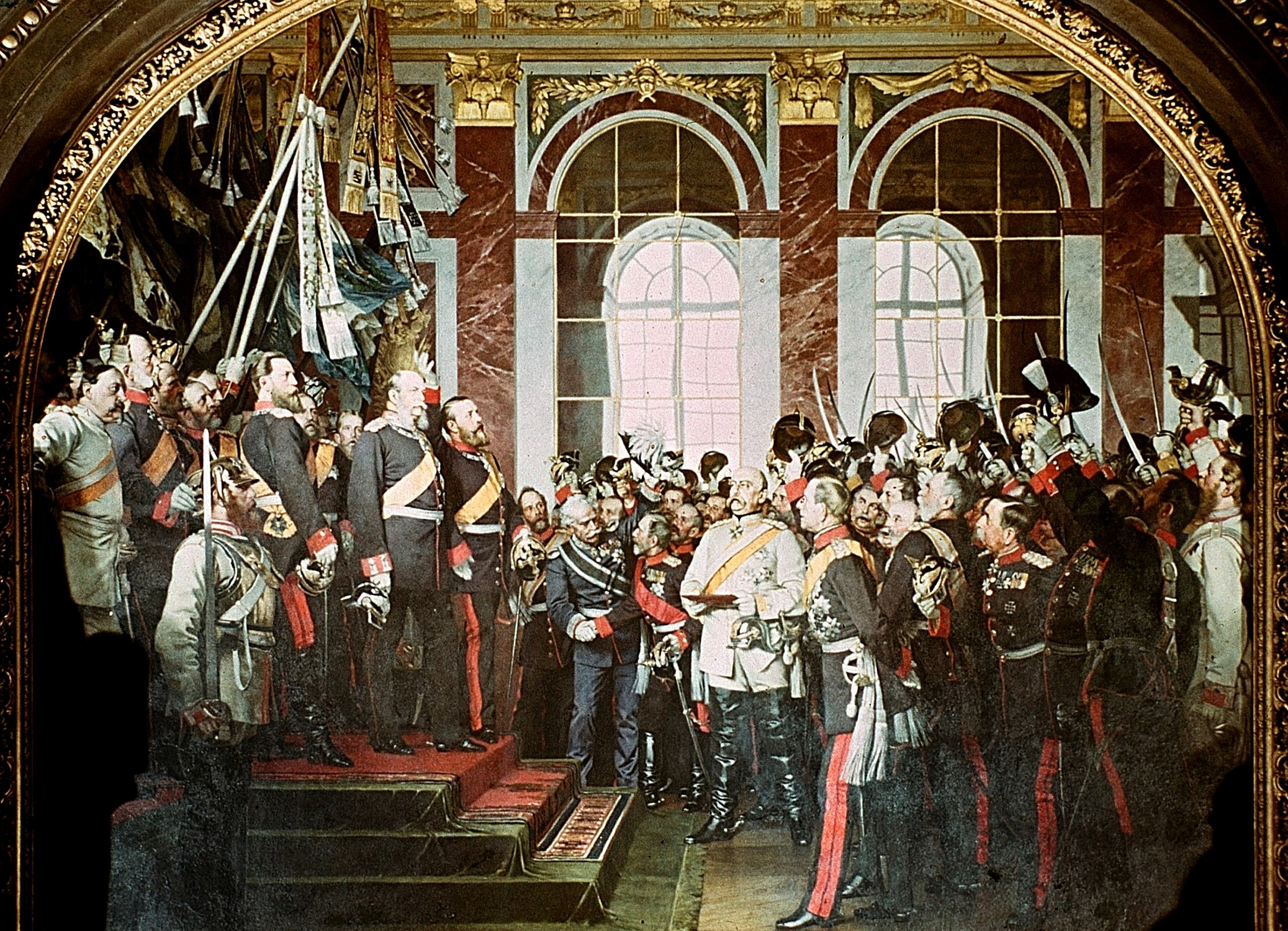 Crowning of Wilhelm I to Emperor of Germany, in Versailles, by Anton von Werner, second version for the Ruhmeshalle Berlin. Destroyed in WW 2 (as the first version too). Do not confuse with the third version of 1885, a birthday present for Bismarck with some differences. (Third, commonly known version)